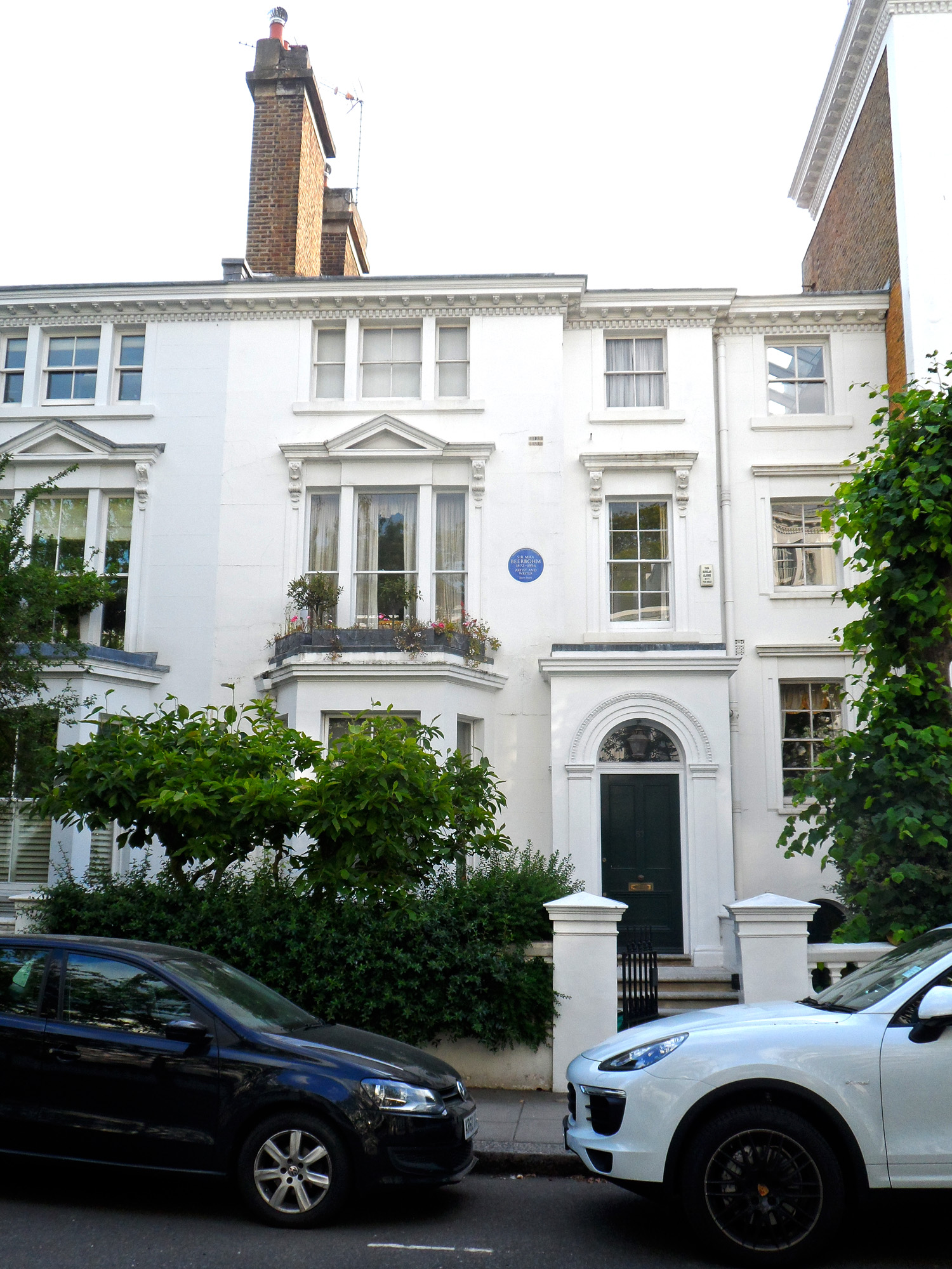 SIR MAX BEERBOHM 1872-1956 ARTIST AND WRITER born here